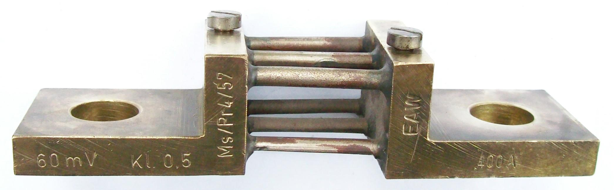 shunt 150 µOhm (60mV at 400A)